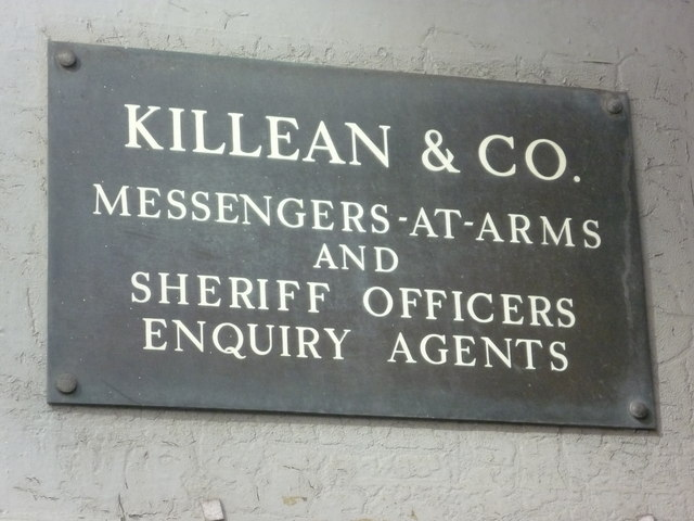 Legal firm's nameplate, Crichton Street